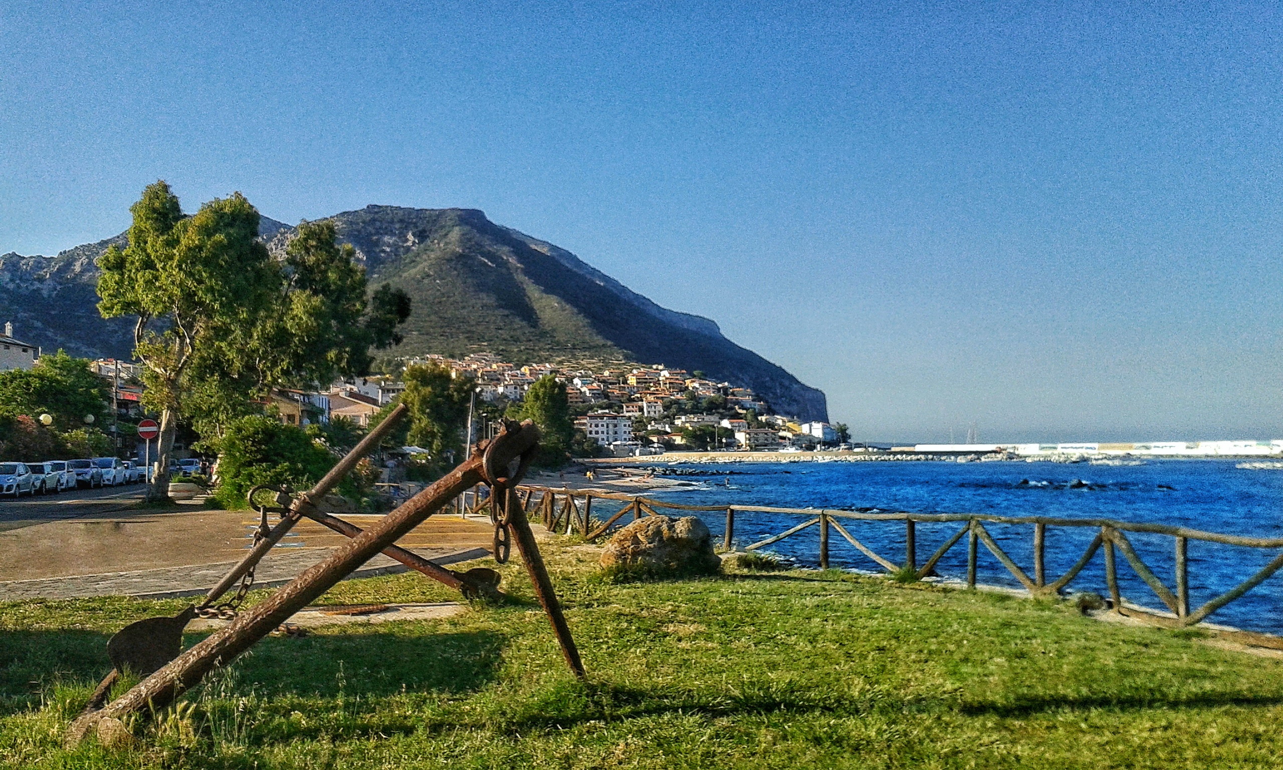 Cala Gonone harbor from Palmasera Park